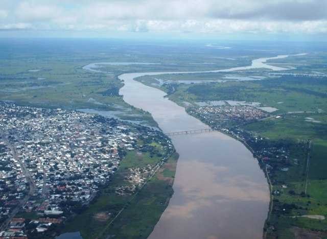 Air view of San Fernando de Apure (Apure) y Puerto Miranda (Guárico) and Apure river. Venezuela.